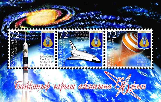 Stamp of Kazakhstan